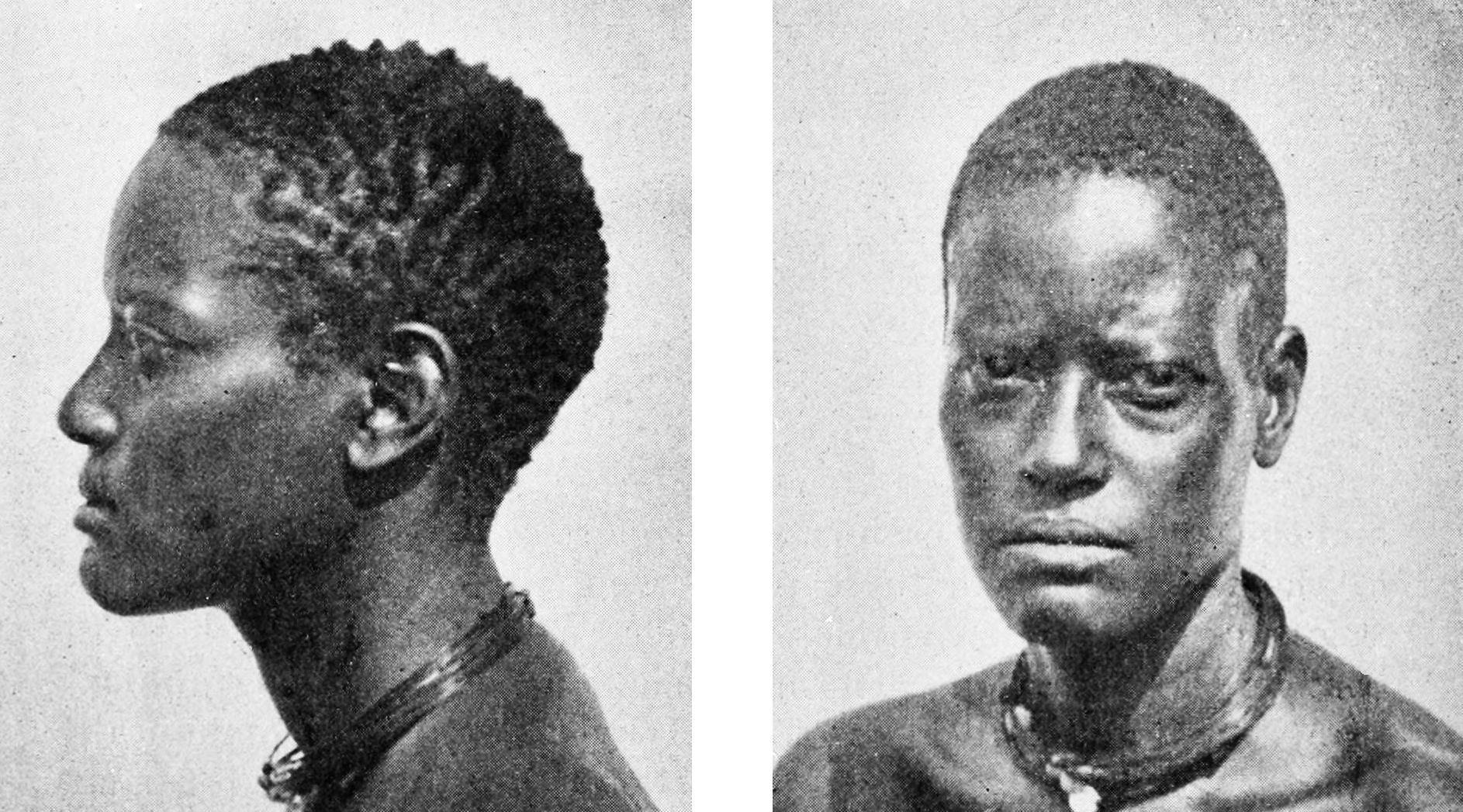 Central African cephalic index 70